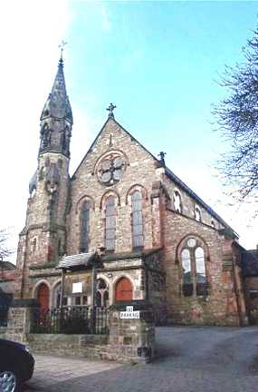 Roman Catholic church of St Joseph and St Francis Xavier, Newbiggin, Richmond, North Yorkshire, seen from the southeast